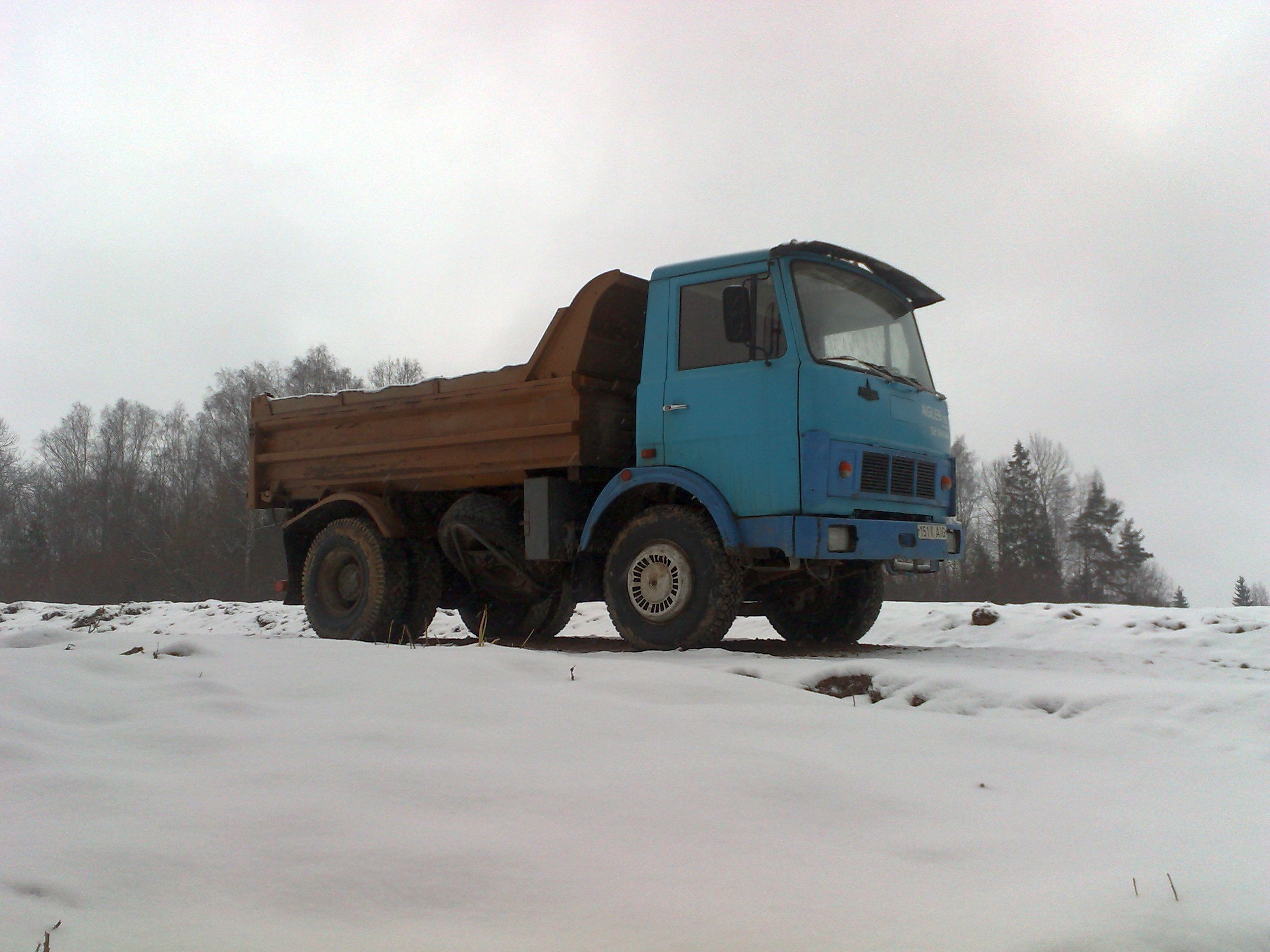 A MAZ-5551 tipper lorry in Valga County, Estonia.